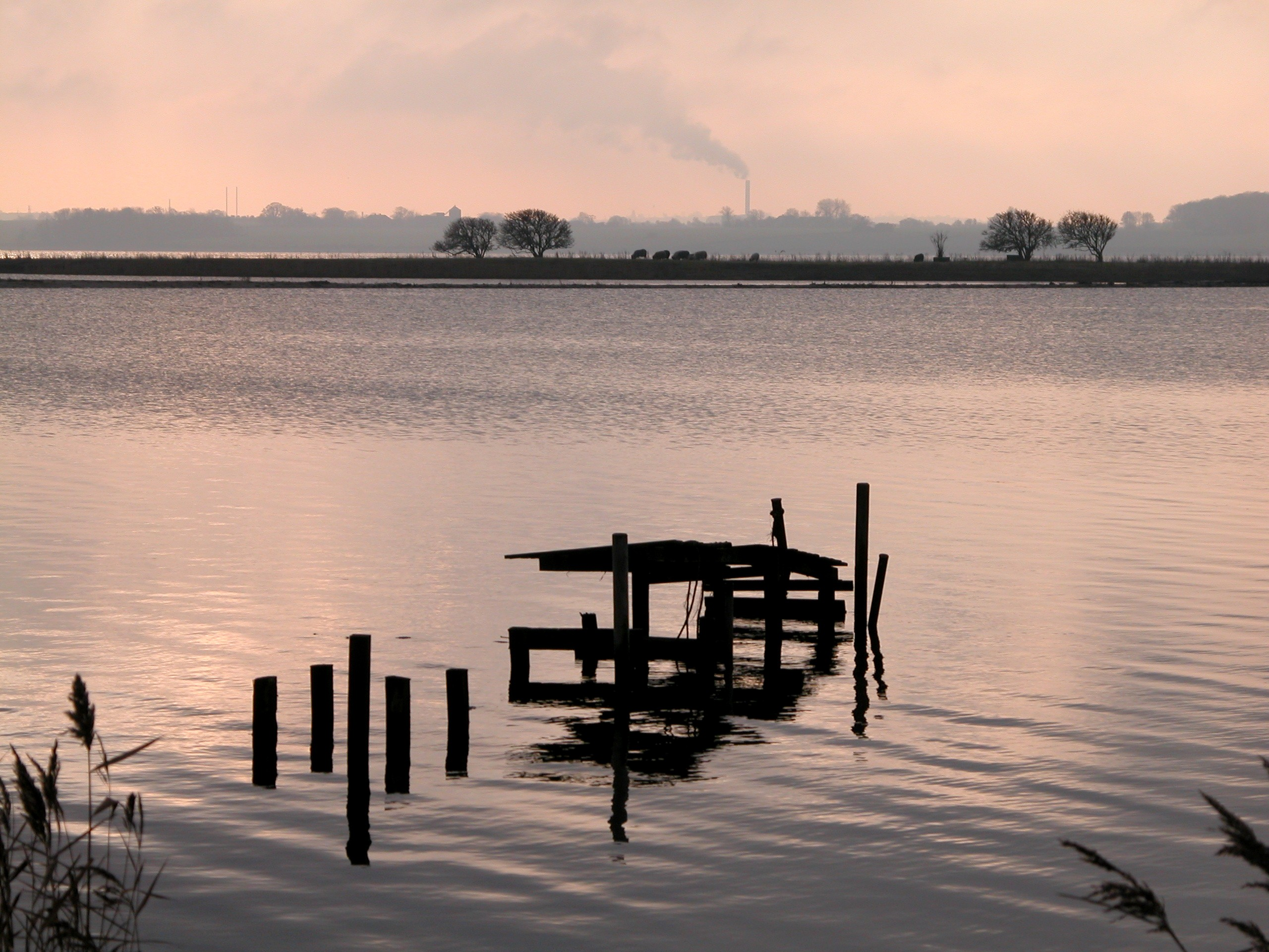 Island Katholm in Augustenborg fjord, Als, Denmark